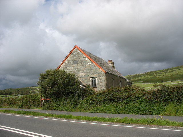 Capel Egryn - the scene of strange apparitions Capel Egryn, built in 1836, was the focus of strange manifestations and visions during the Religious Revival of 1904-05. These were centred around a 38 year old farmer's wife, Mary Elizabeth Jones, of Islaw'r Ffordd, who became better known as Mari'r Golau (Mary the Lights). In addition to seeing strange lights in the night sky she also had visions of Christ, of angels and, in the form of a large black dog, of Satan himself. The visions attracted attention well beyond the area and thousands flocked to Capel Egryn. Mari also went on a nationwide tour prophesying and describing her visions to packed congregations. Many claimed to have shared her visions. Reporters from the Daily Mirror, the Daily Mail and the Daily Telegraph wrote of seeing mysterious lights. Others standing next to them, including their own photographers saw nothing. In later years Mari who was regarded as an embarrassment by the respectable people of Barmouth, became something of a recluse and is said to have turned her back on religion. Country folk however did not forget her and when she died in 1936 she had one of the biggest funerals seen in North Wales. The following link has a photo of Mari In recent years the Egryn Lights have intrigued UFO-ologists and scientists alike. One theory is that they were associated with the Bala earthquake of 1905.